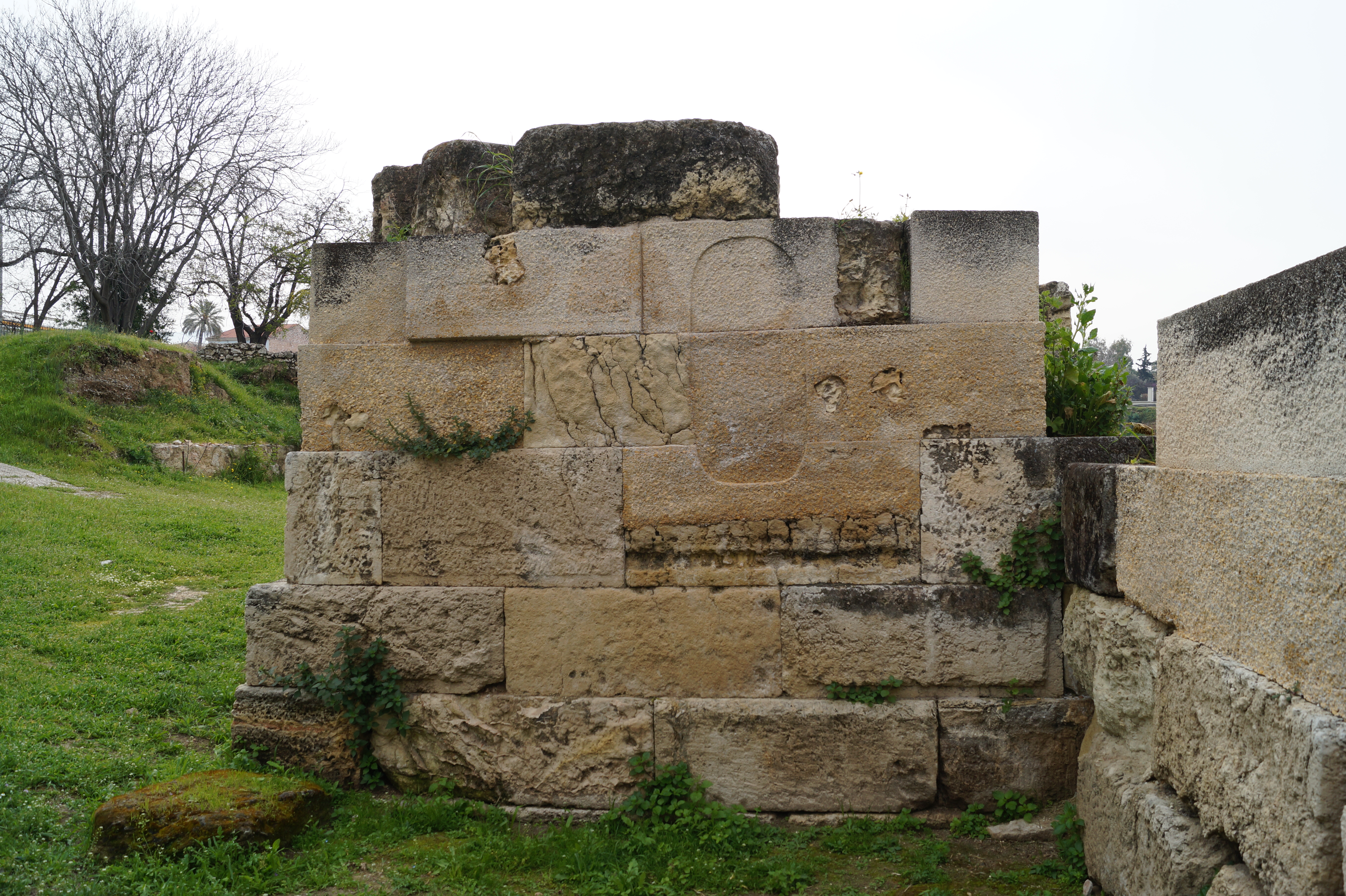 Kerameikos, Athens, Greece: Inner wall of the Tomb of the Lacedaemonians.